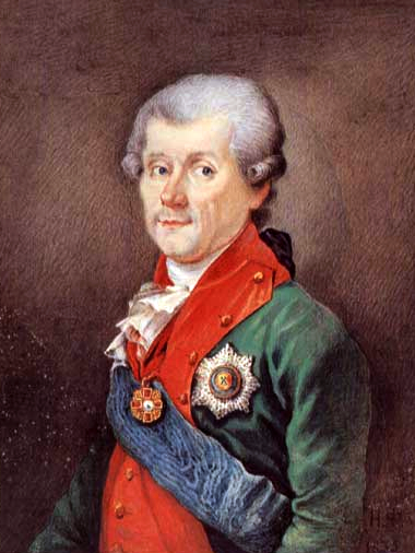 Mikhail Kakhovski